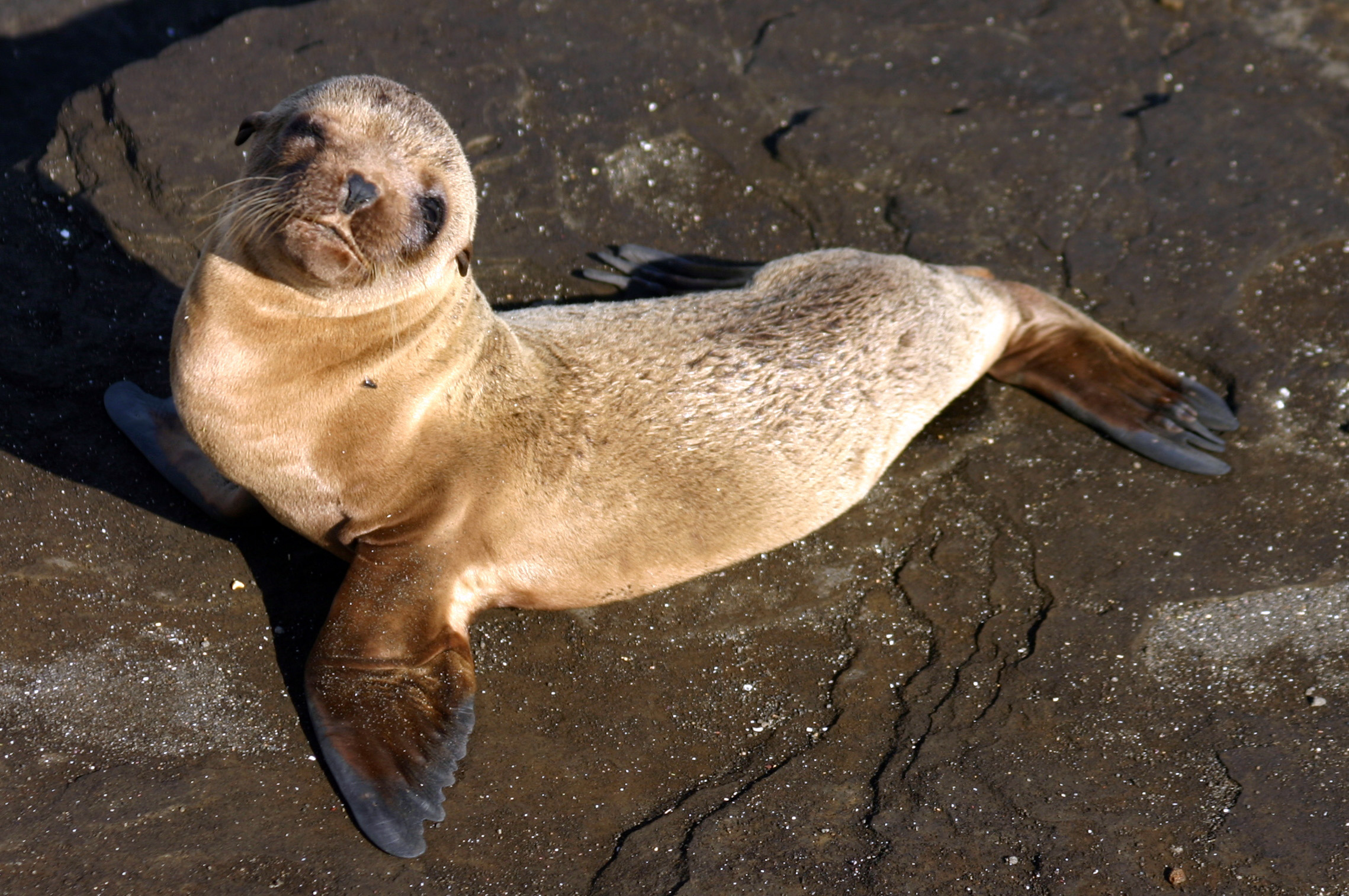 A baby Galápagos sea lion (Zalophus wollebaeki), about one month old, at Egas Point on Santiago Island in the Galápagos Islands.